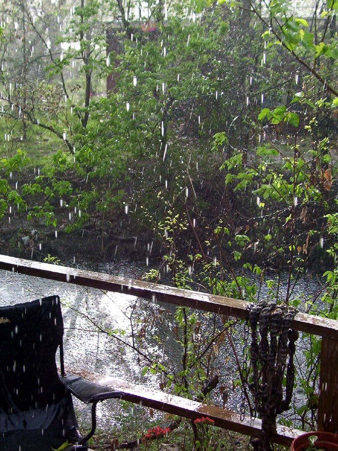 Rain falling on a creek, with the sun shining.